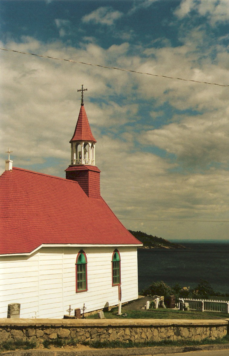 Church on the waterfront of Tadoussac, Quebec. Built in 1747, it is the oldest wooden church still standing in North America.